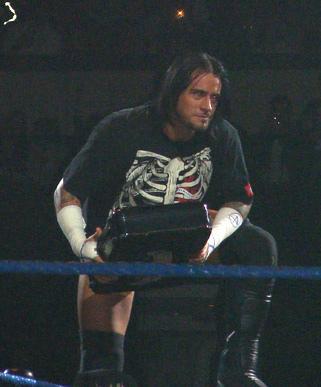 CM Punk @ Adelaide, South Australia 'Smackdown/ECW' house show on the 14th of June '08